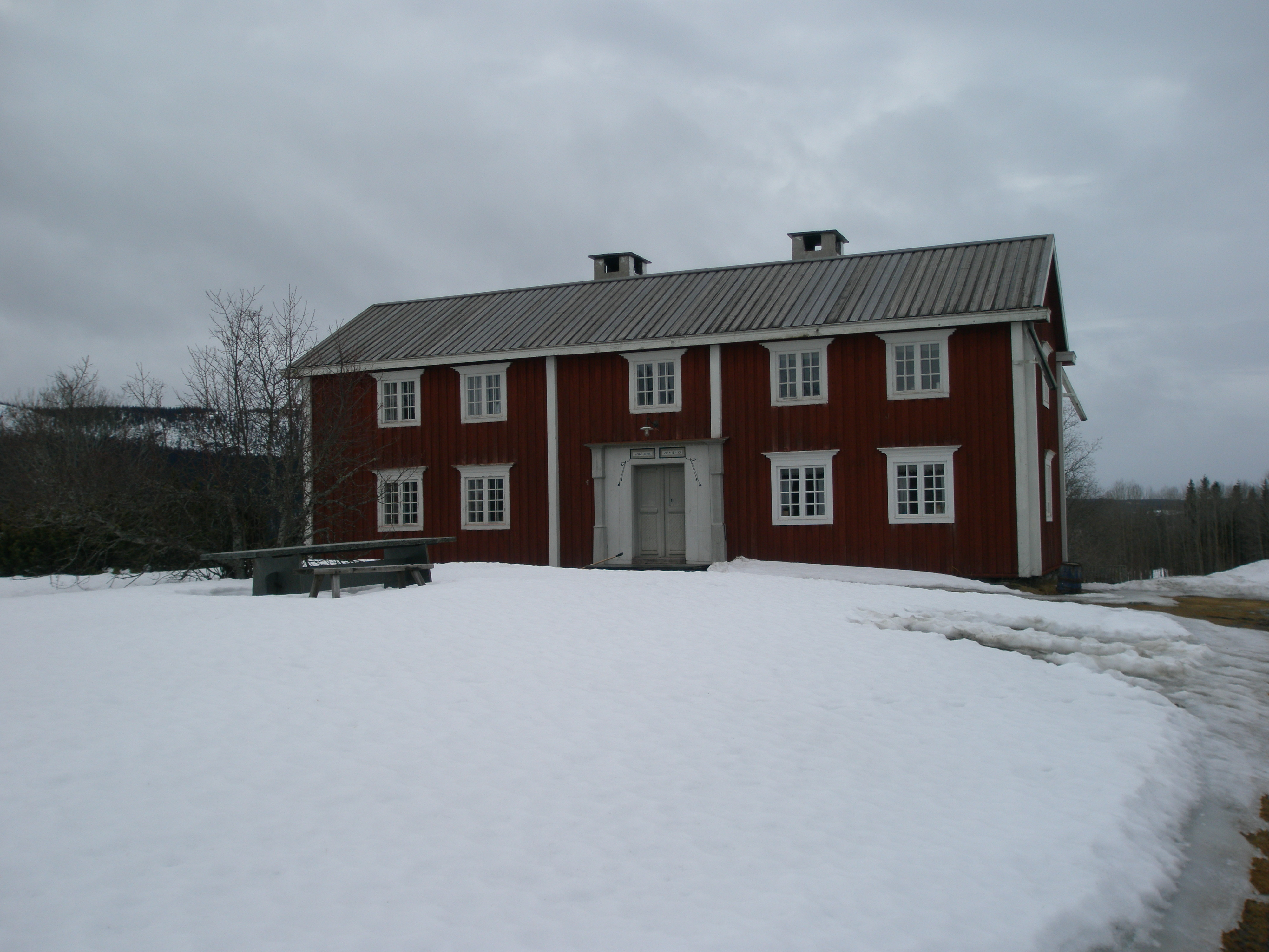 Ede, Offerdal, Krokom, Jämtland, Sweden.